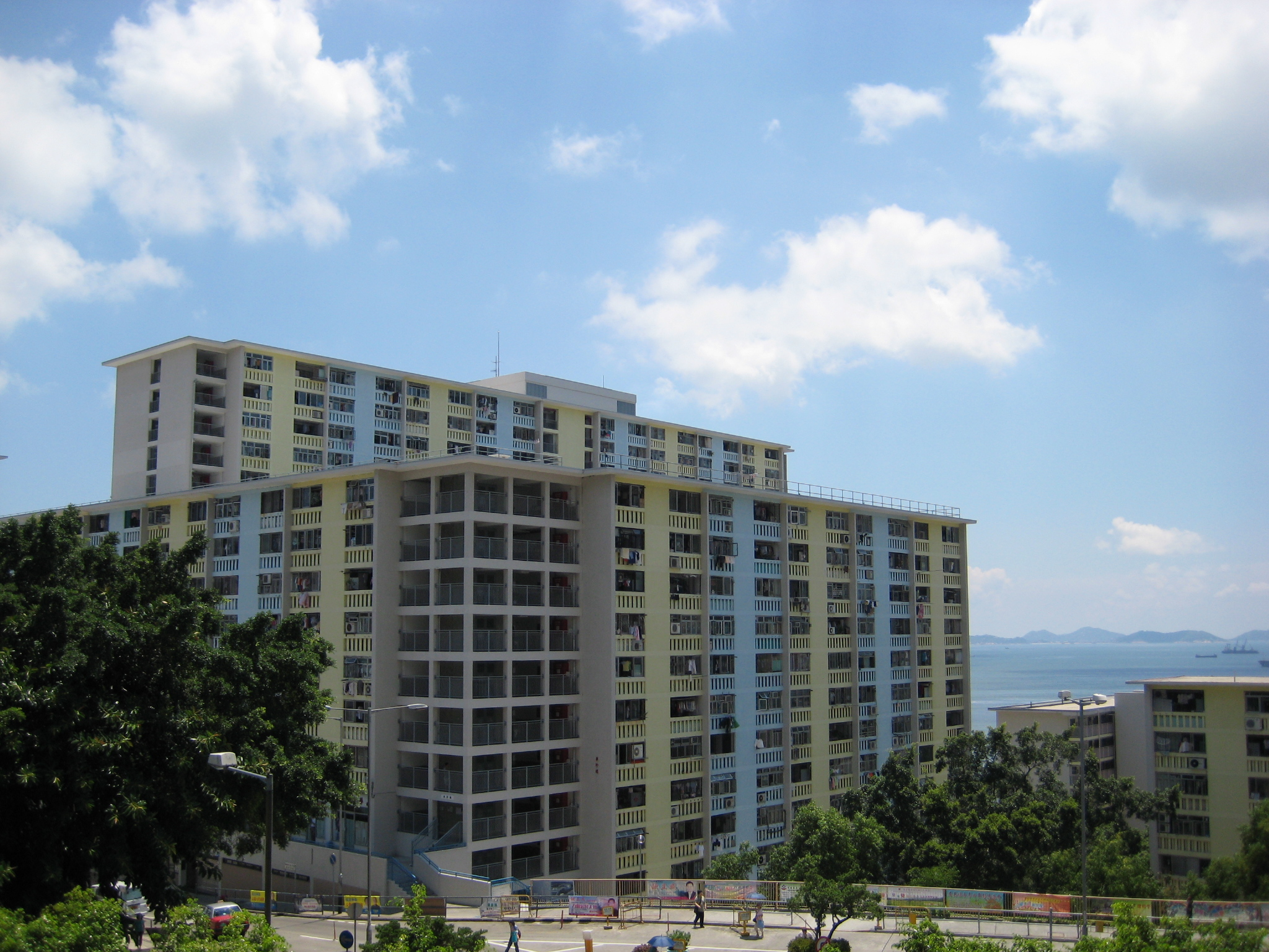 wah fu (1) estate